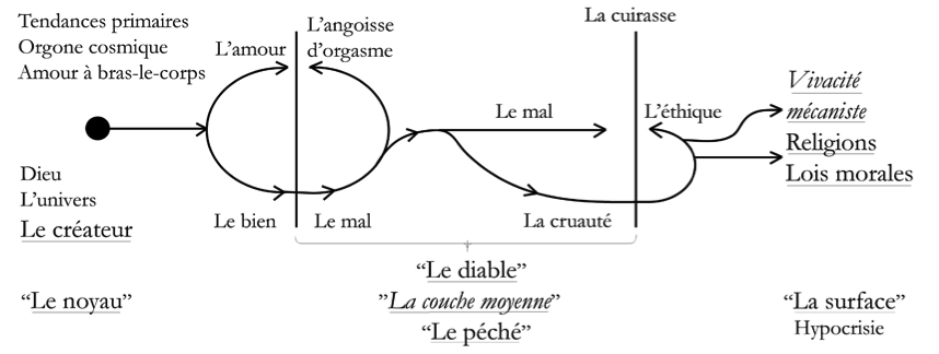 La cuirasse caractérielle, schéma extrait de "Le meurtre du Christ" de Wilhelm Reich